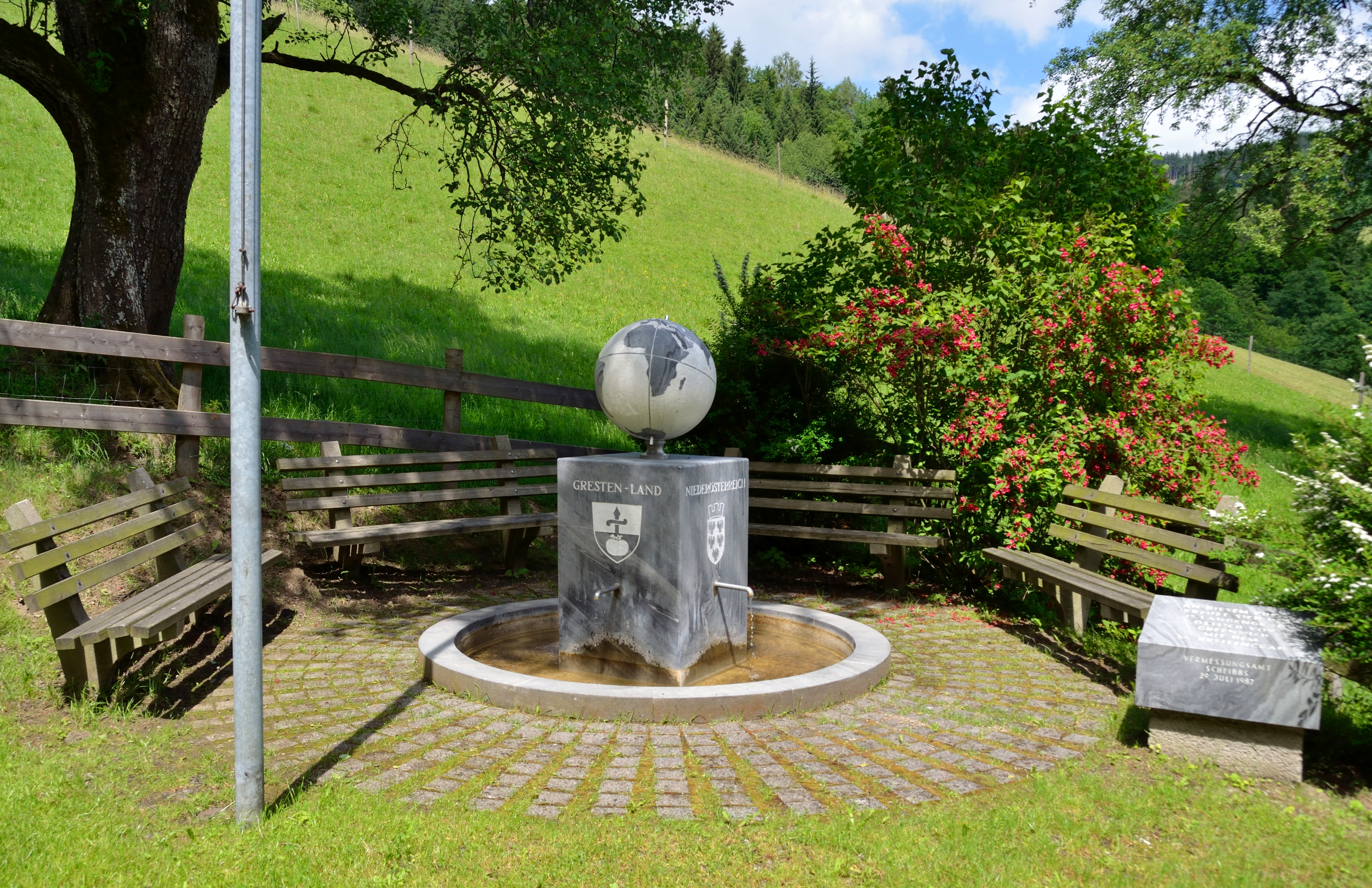 The meridian stone in Gresten-Land, Lower Austria, marks the intersection of 15° E and 48° North.